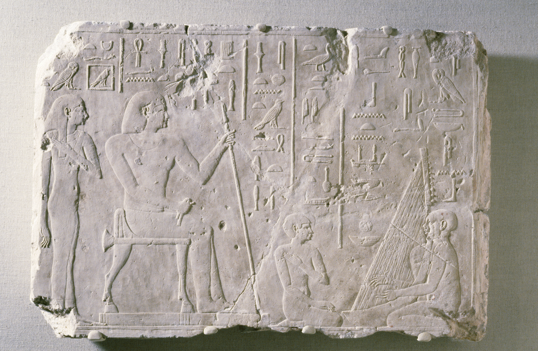 Late Period interest in the past is clearly demonstrated in this work, whose composition, clothing, and poses all recall Old Kingdom and Middle Kingdom works. Details such as the crisp precision of the carving and the presence of personal names date the piece to the Late Period. It shows its owners, Ankh-ef-en-Sekhmet and his wife Hathor-em-hat, to the viewer's left. Their daughter, with close-cropped hair, kneels at center. The three are entertained by a harpist named Psamtik-seneb, who "plays the harp for the good of their spirits everyday." The harpist's name means "may King Psamtik be healthy." The tomb from which this relief came was located in Saqqara, the necropolis (cemetery) of Memphis, an important center for the worship of the goddesses Sekhmet and Hathor, whose names are incorporated into the tomb owners' names.